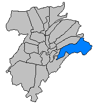 Map of Luxembourg City, Luxembourg, with the boundaries of the city's twenty-four quarters demarcated and the quarter of Hamm highlighted in blue.